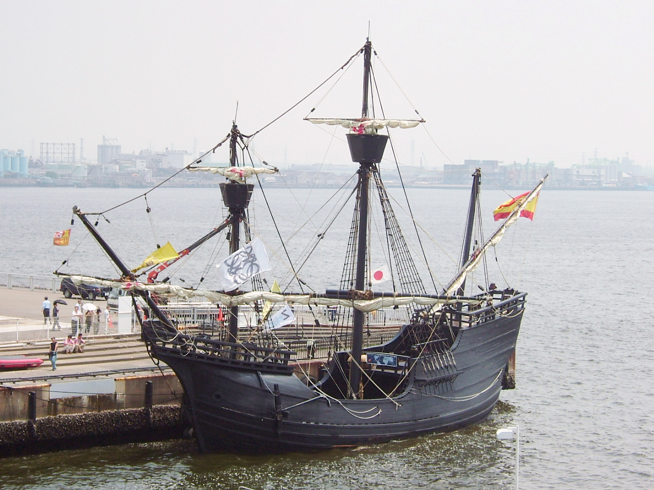 Replica of the Victoria, a nao, the only one of Magellan's five ships to return to Spain in 1522, thus becoming the first ship having circumnavigated the globe. Photographed in Nagoya, Japan.